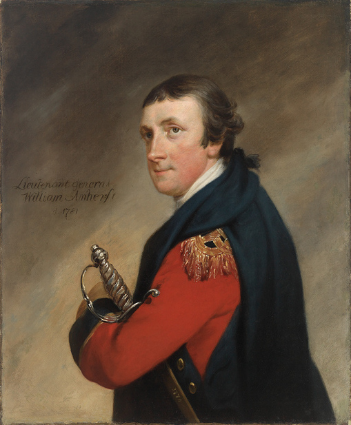 Portrait of Lieutenant General William Amherst (1722-1781)